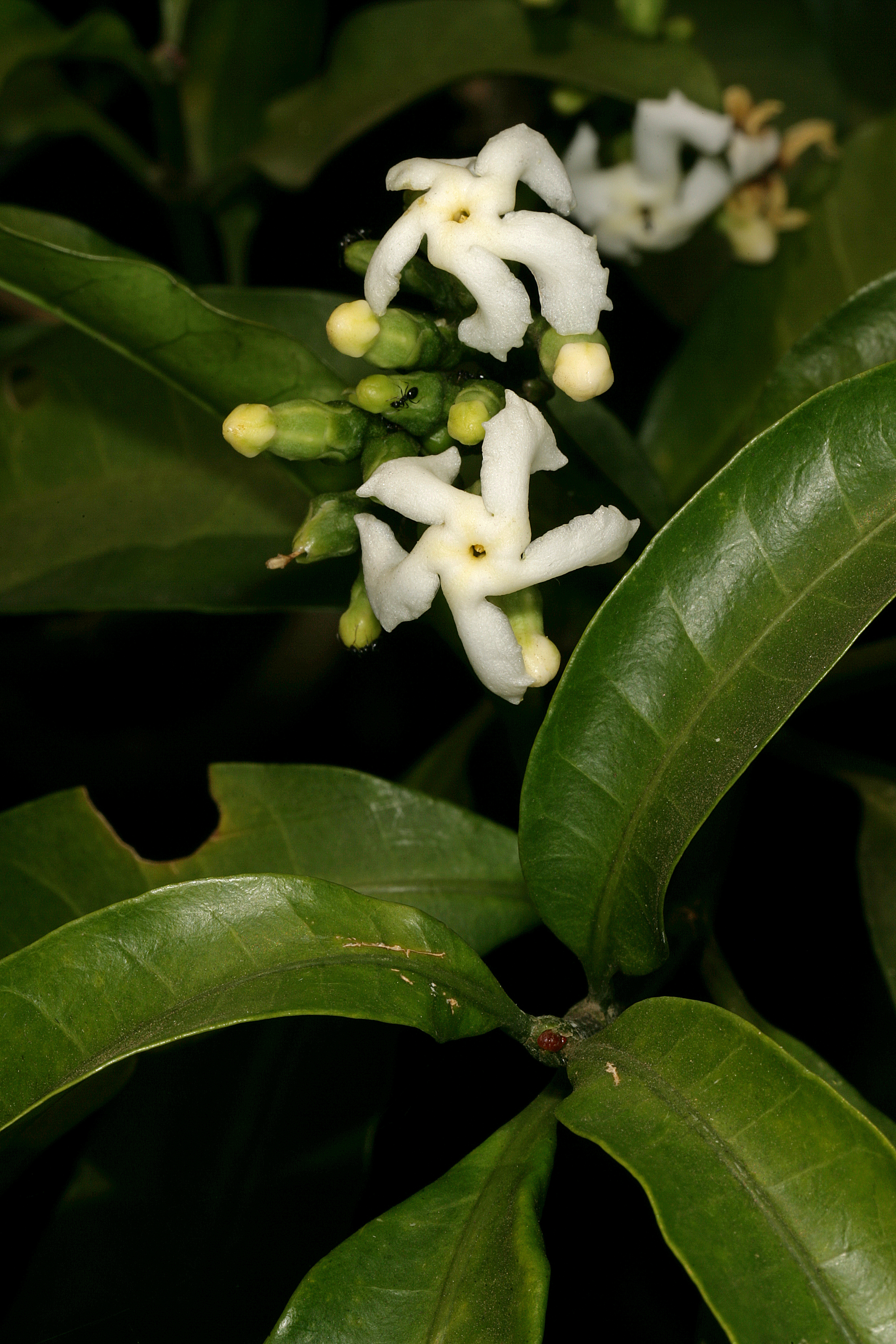 Tabernaemontana ventricosa, flowers; Dlinza Forest, Eshowe, KwaZulu-Natal, South Africa